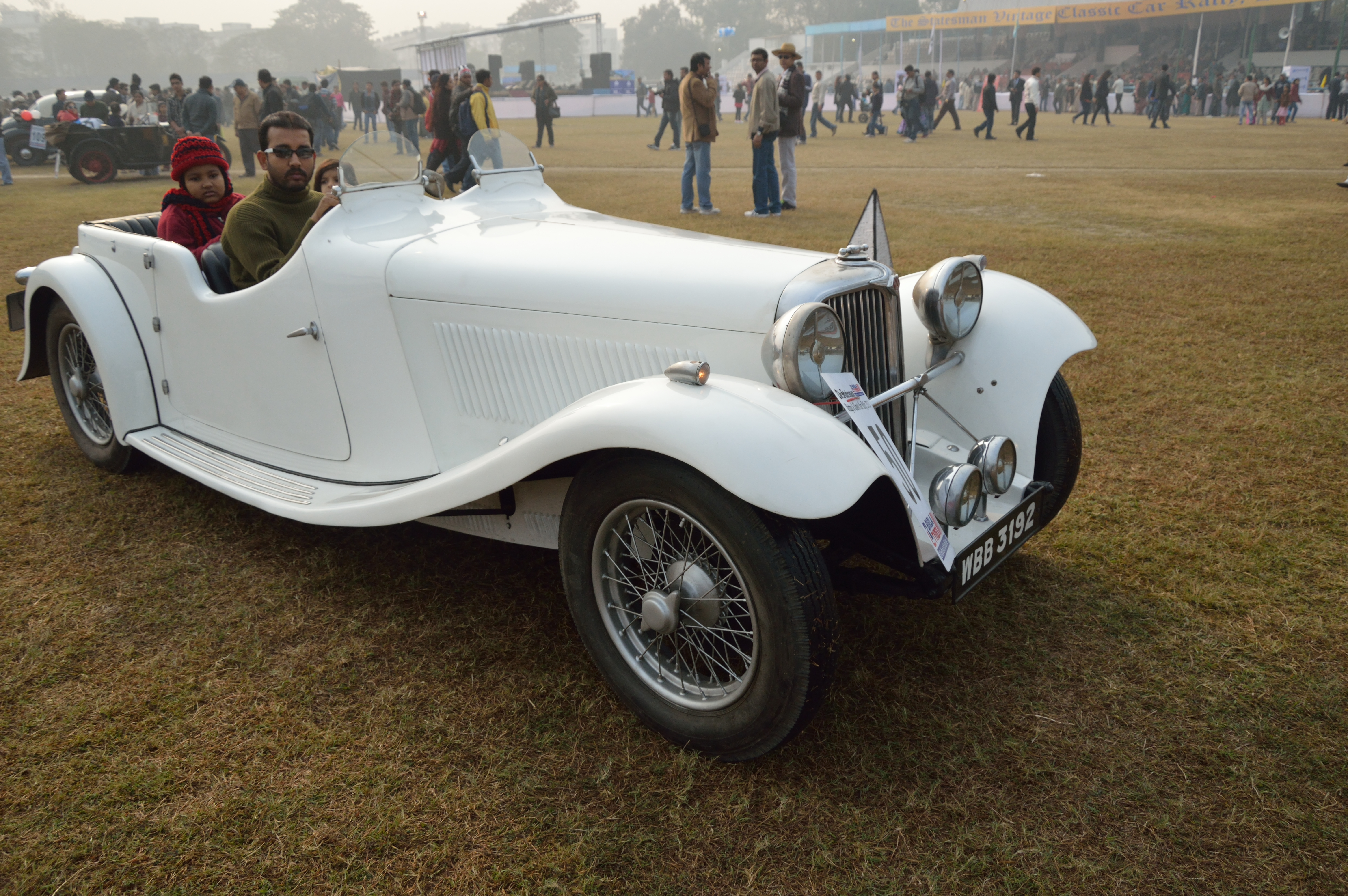 This car was exhibited and ran during ‘The Statesman Vintage & Classic Car Rally 2013’ from the Eastern Command Sports Stadium of Fort William, Kolkata to the same via: Rabindra Sadan, Esplanade, Central avenue, Bhupen Bose avenue, Shaymbazaar five points crossing, APC Roy road, AGC Bose road Park Circus seven points, Gariahat flyover, Gol park, Rabindra Sarover, SP Mukherjee road, Hazra Road, Alipore road and Strand road, the route covers 31.32 km. The rally was held at chilled morning on 13 January 2013 at the ECS Stadium, where 170 entrants were participated with cars and bikes manufactured from 1906 to 1978. This one day festival takes place on the second Sunday of every January in Kolkata since 1968 with full of period costume and cultural period pieces.